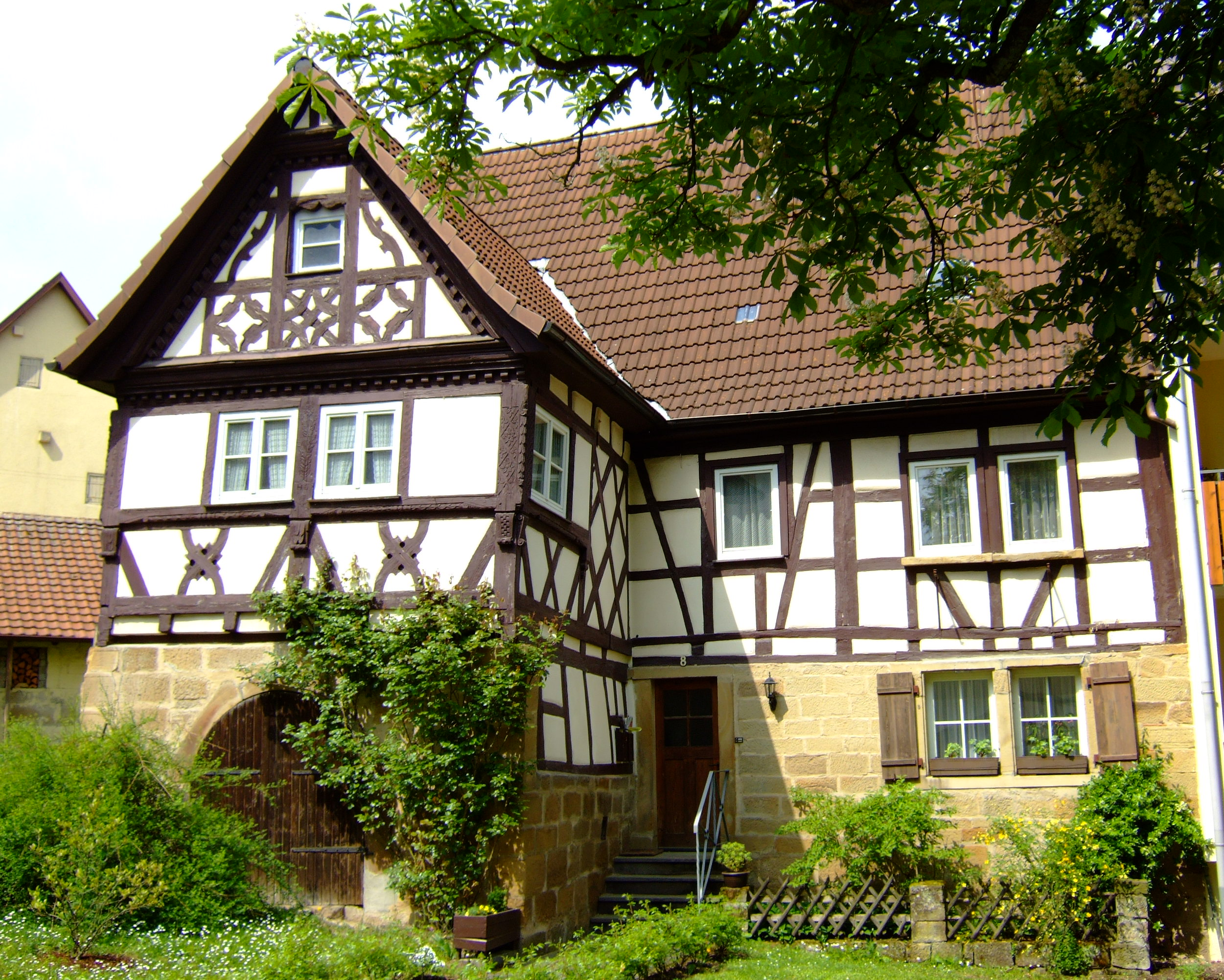 Oldest residential house of the Village Neckarsulm-Dahenfeld (built: 1602)